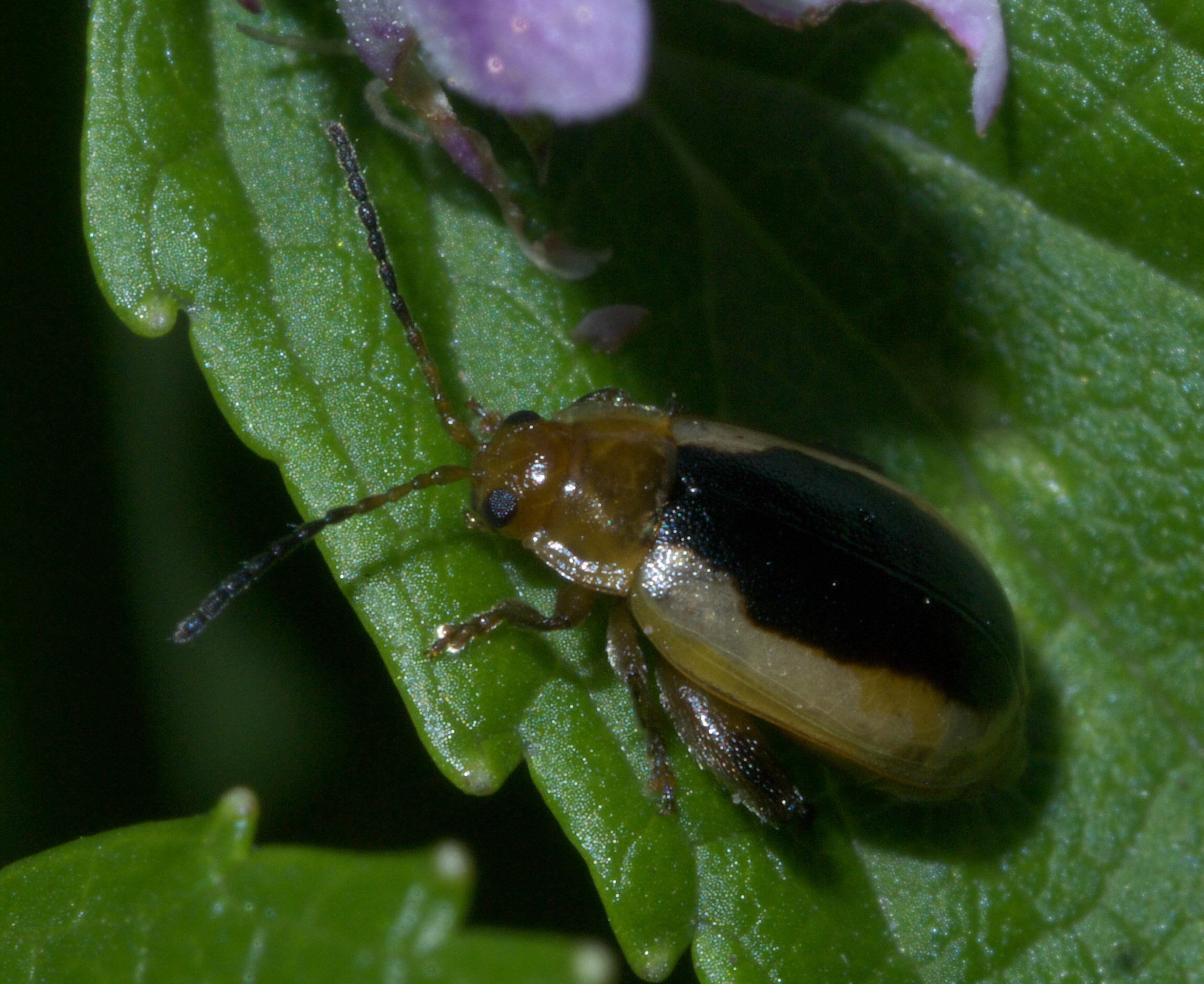 Capraita thyamoides, Tribe: Flea Beetles, Size: 4.5 mm, ID Confidence: 87